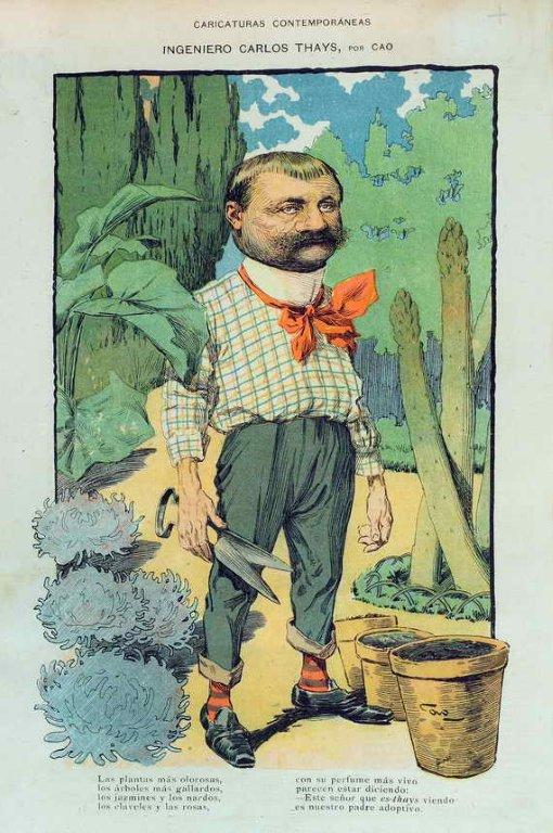 Caricature of Carlos Thays, made by José María Cao Luaces and published in 1901 by the Caras y Caretas magazine.